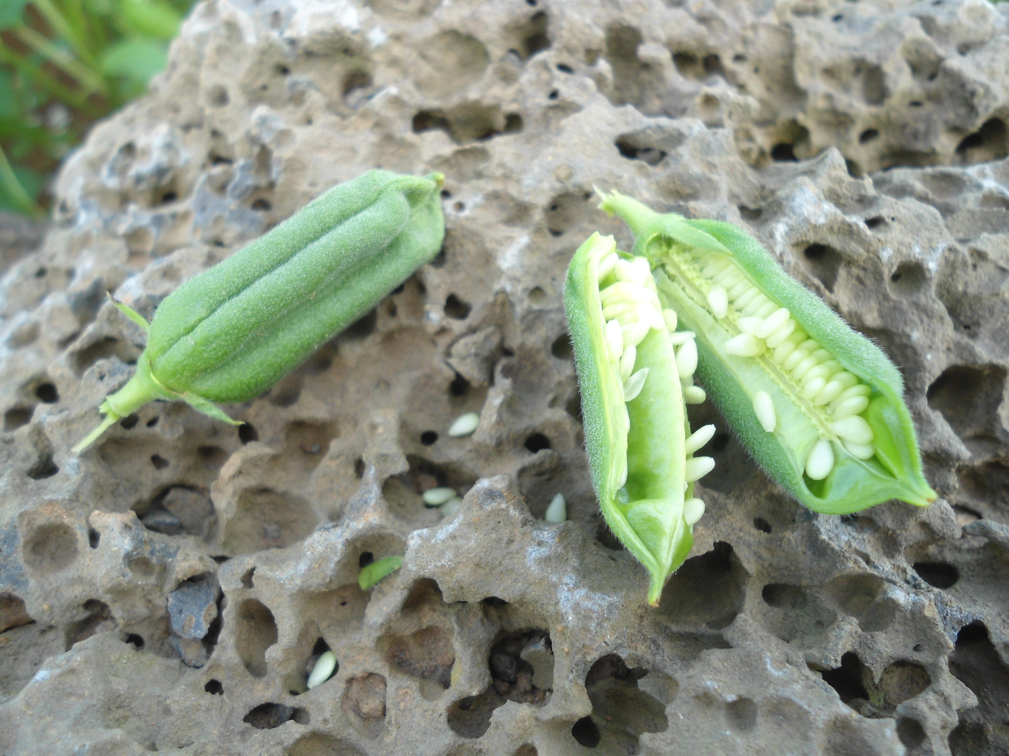 Sesame pods in Hainan, China